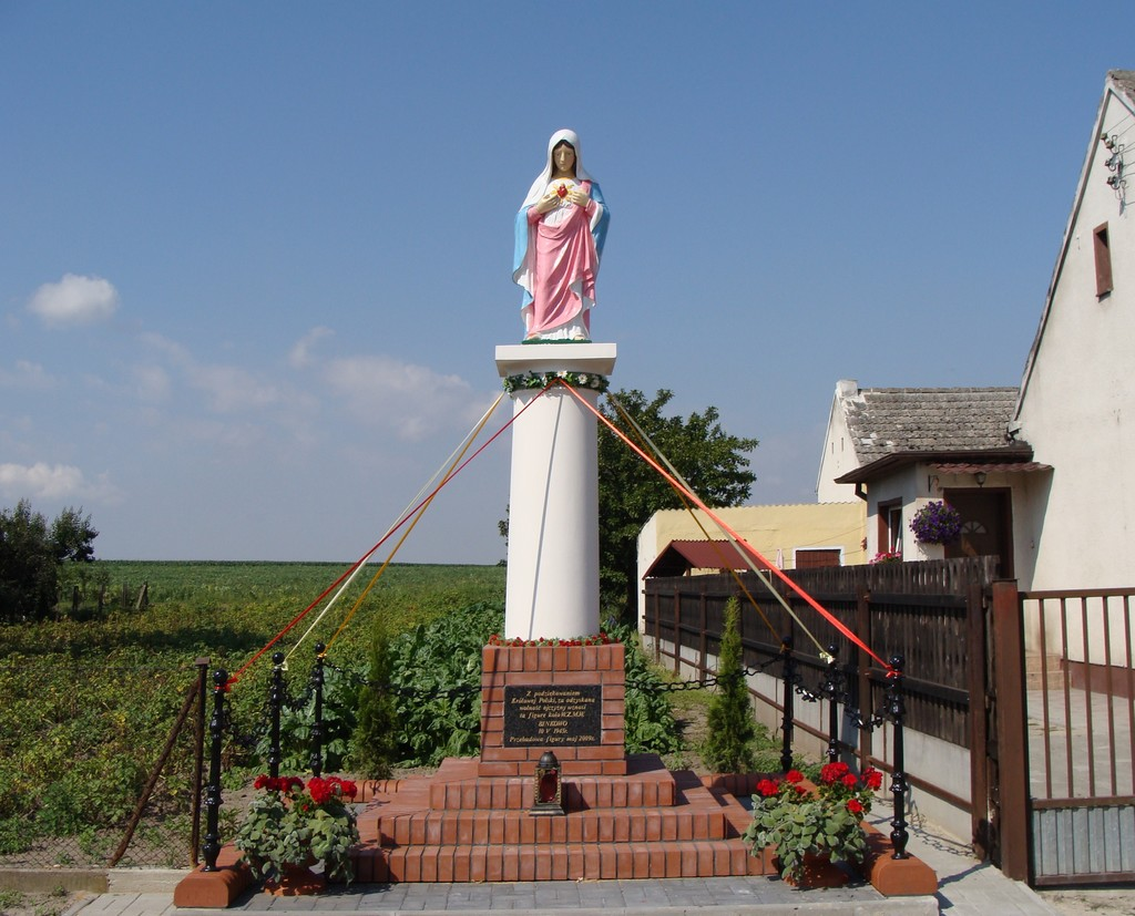 Binkowo, roadside shrine.